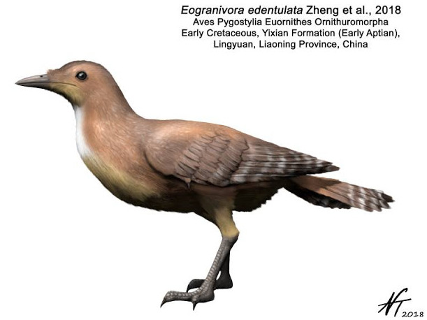 Systematics: Aves Pygostylia Euornithes Ornithurimorpha Size: 25 cm long Type Horizon and Locality: Early Cretaceous, Yixian Formation (Early Aptian), Lingyuan, Laioning Province, China Type Specimen: SRM 35-3, nearly complete articulated skeleton The fossil of this primitive bird was first mistaken for a specimen of the related Hongshanornis. It has a toothless robust beak and was a seed eater, thus its name. It was terrestrial rather than arboreal.